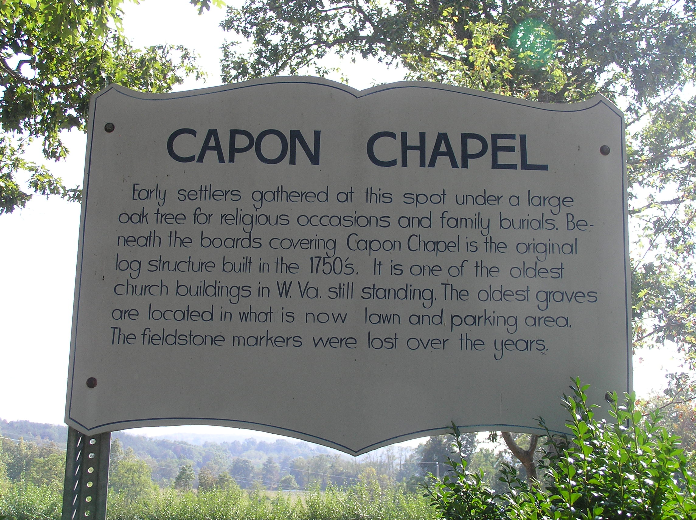 Capon Chapel (c. 1756) and Cemetery Historic Marker on Christian Church Road (County Route 13) near Capon Bridge, West Virginia, United States.